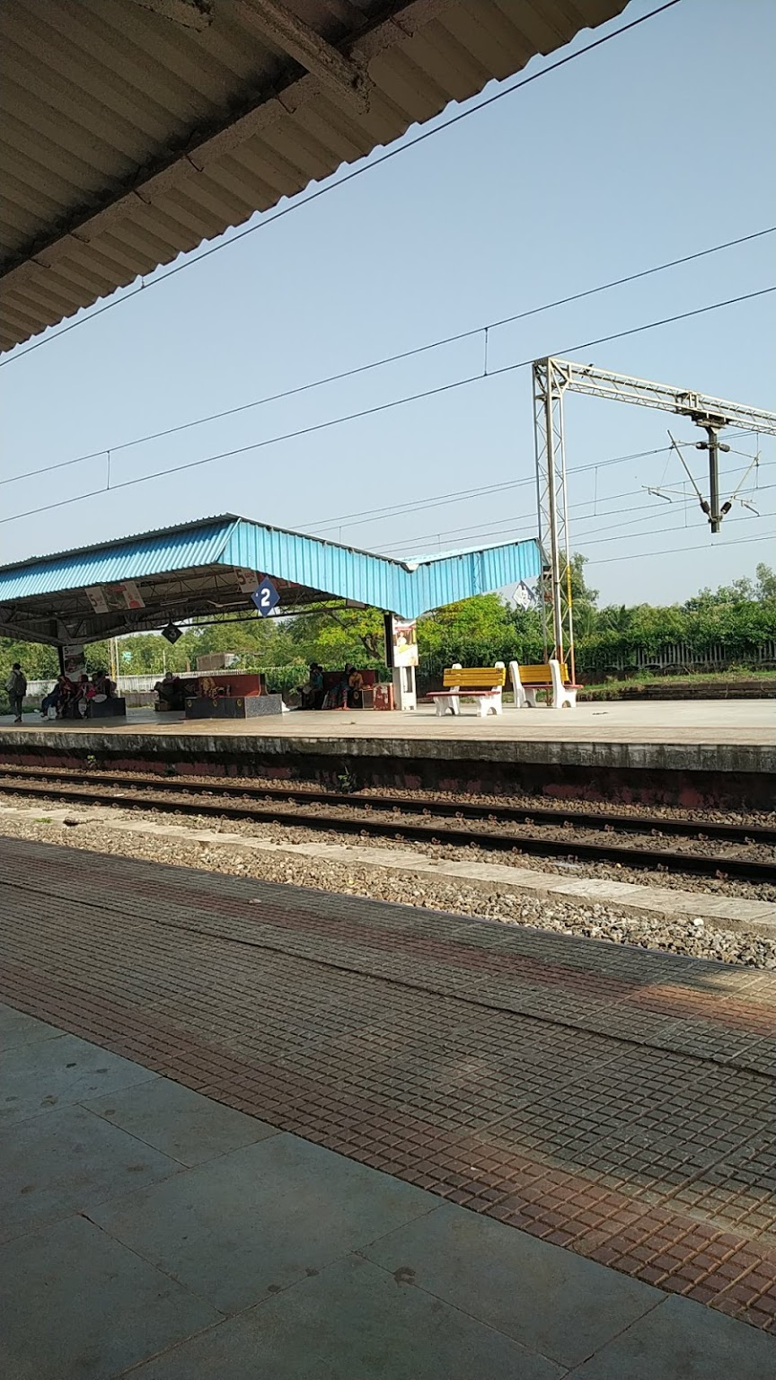 This is the Picture of Kalupara Ghat railway station